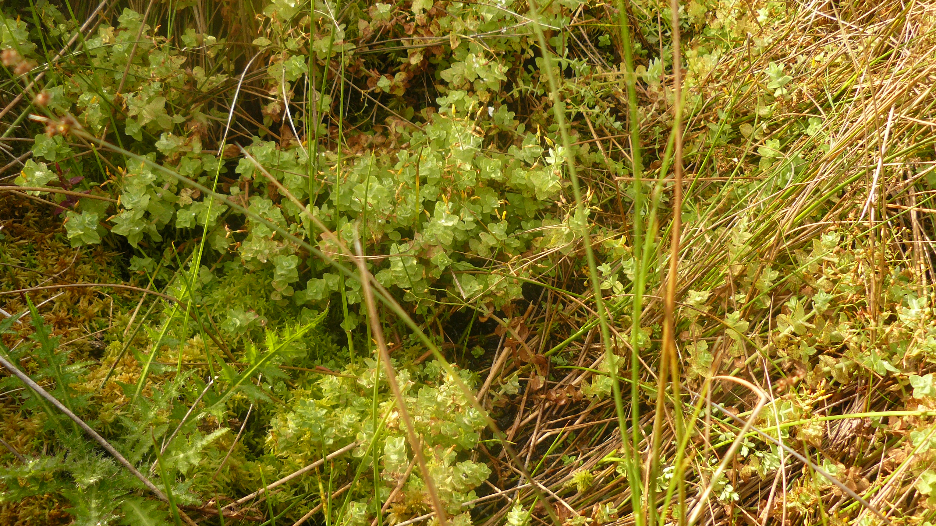 Hypericum elodes in a bog (Saône et Loire, 71) France